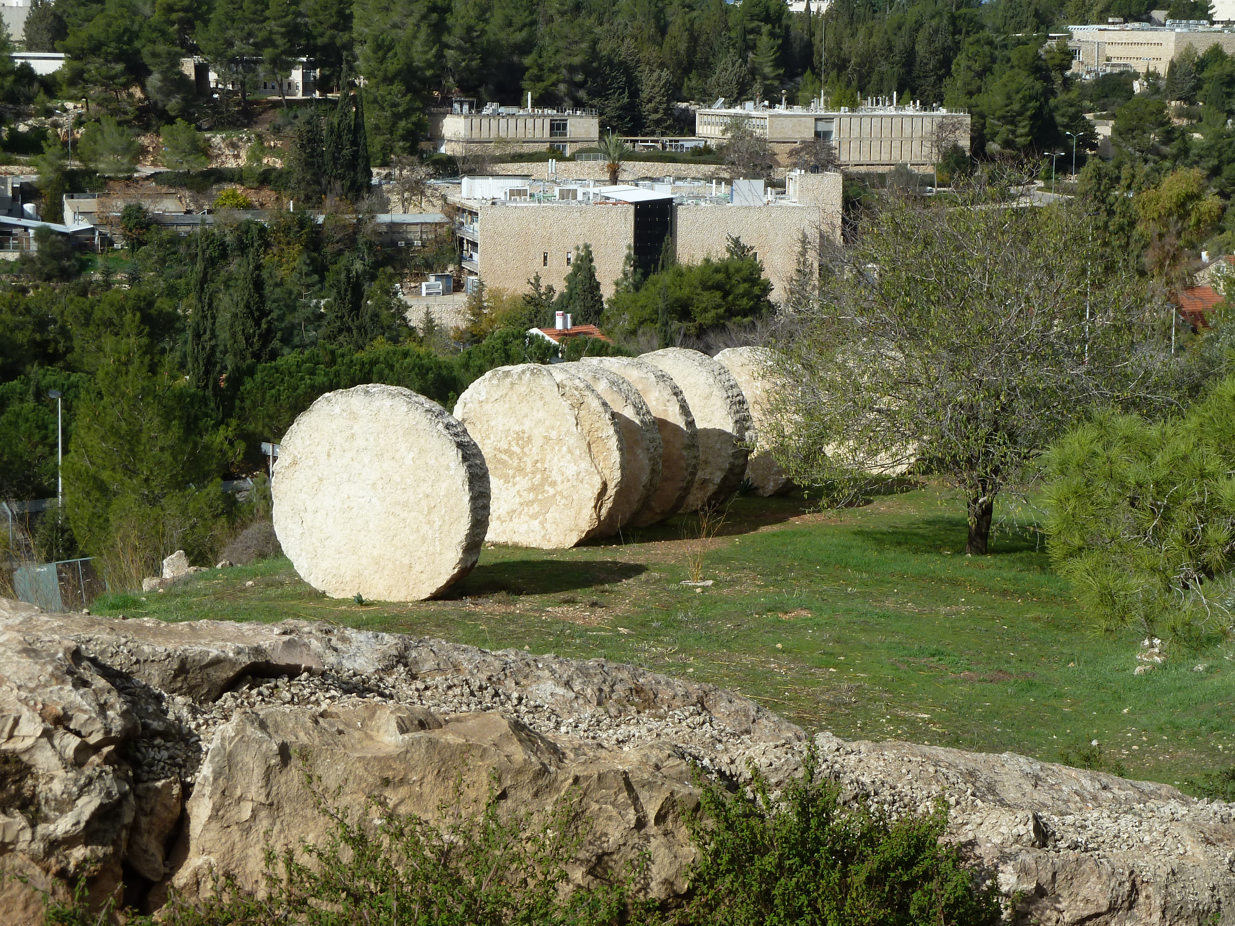 Jerusalem Israel Museum Magdalena Abakanowicz Negev 1987